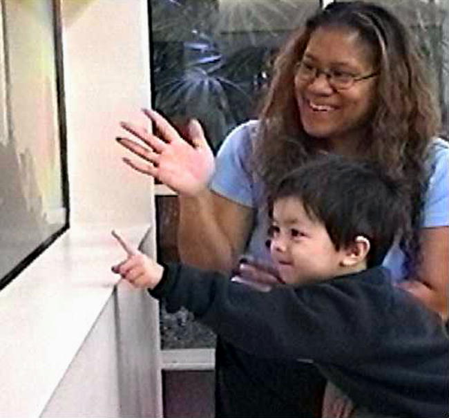 "A child with autism (three years old) pointing to the fish in an aquarium." The photo demonstrates a controlled randomized test by Kasari, Stephanny Freeman and Tanya Paparella to determine whether intensive training in sharing attention (in this case, pointing at fish) and pretend playing can lay the groundwork for the acquisition of language skills and subsequent normal development.